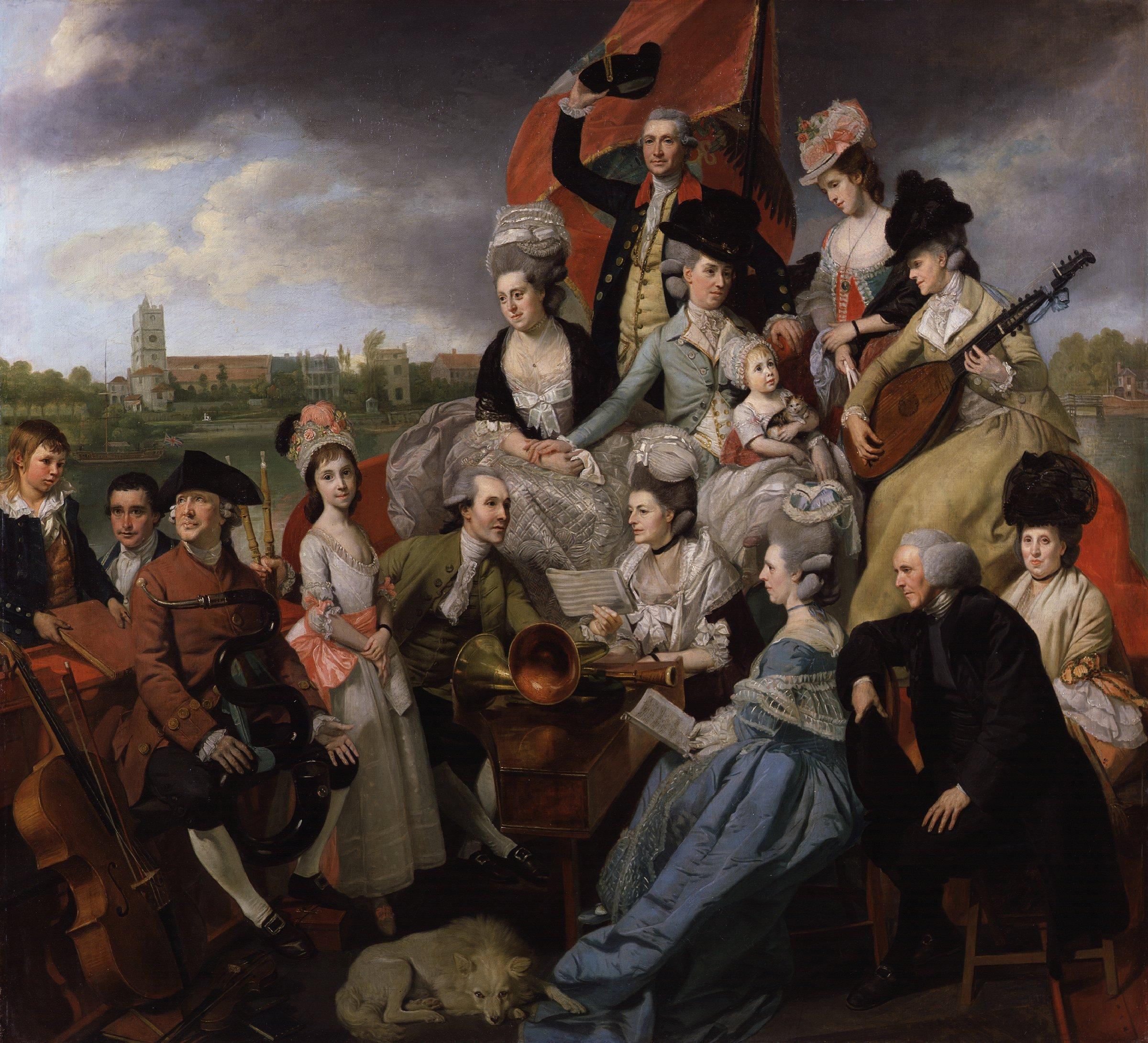 The Sharp Family, by Johann Zoffany (died 1810). All images in this batch have been confirmed as author died before 1939 according to the official death date listed by the NPG.